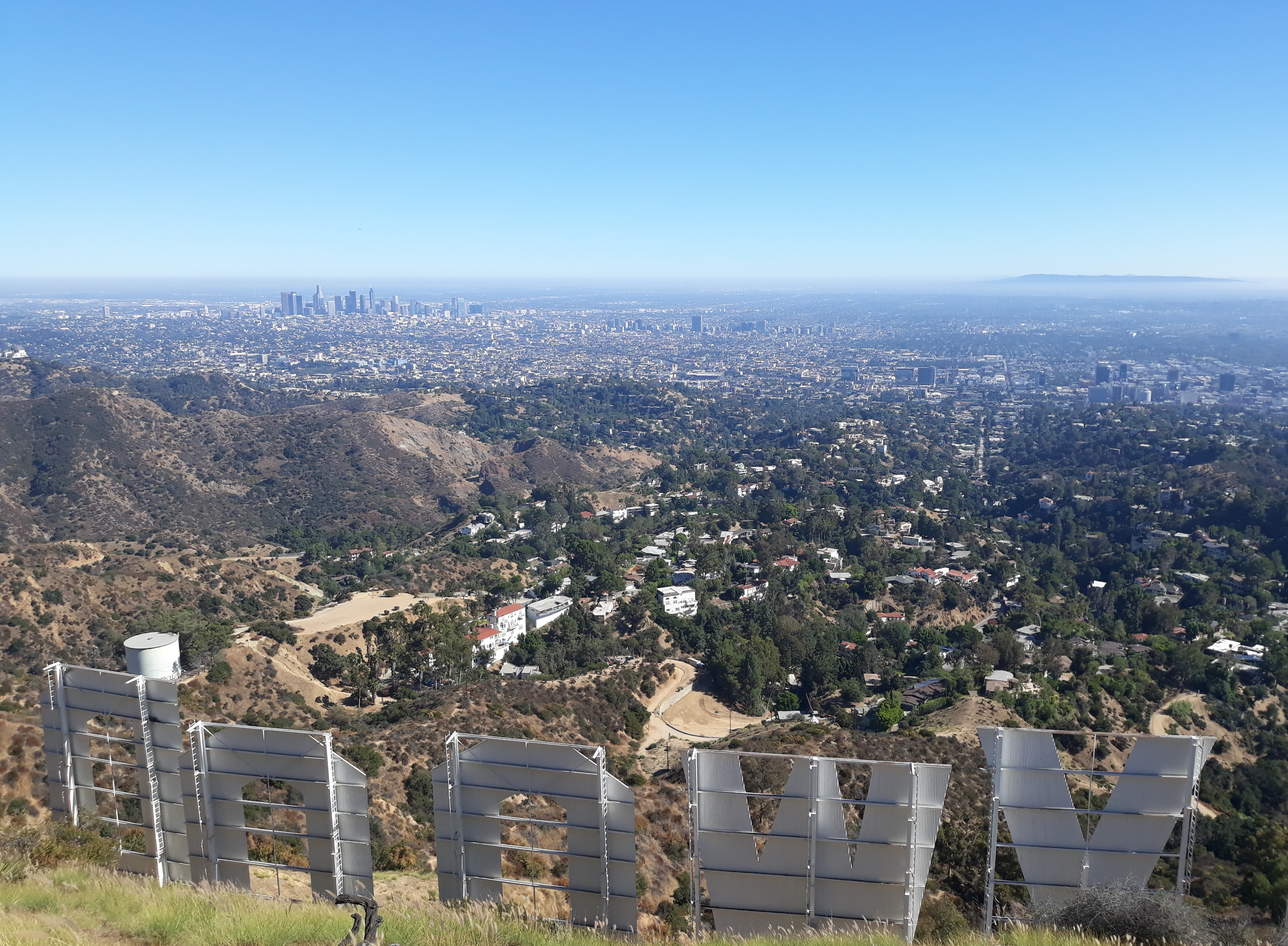 View over Los Angeles from behind the Hollywood sign